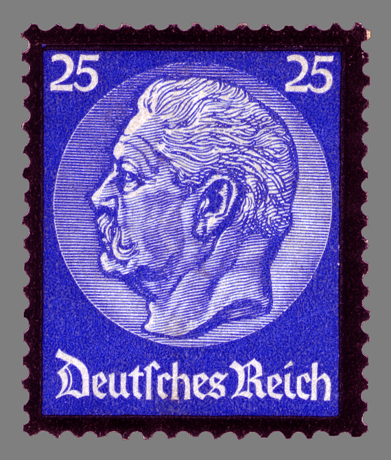 series of stamps of the German Empire in memoriam of Paul von Hindenburg (1847-1934) Graphics by K. Goetz Ausgabepreis: 25 Pfennig First Day of Issue / Erstausgabetag: 4. September 1934 Michel-Katalog-Nr: 553 (Deutsches Reich)